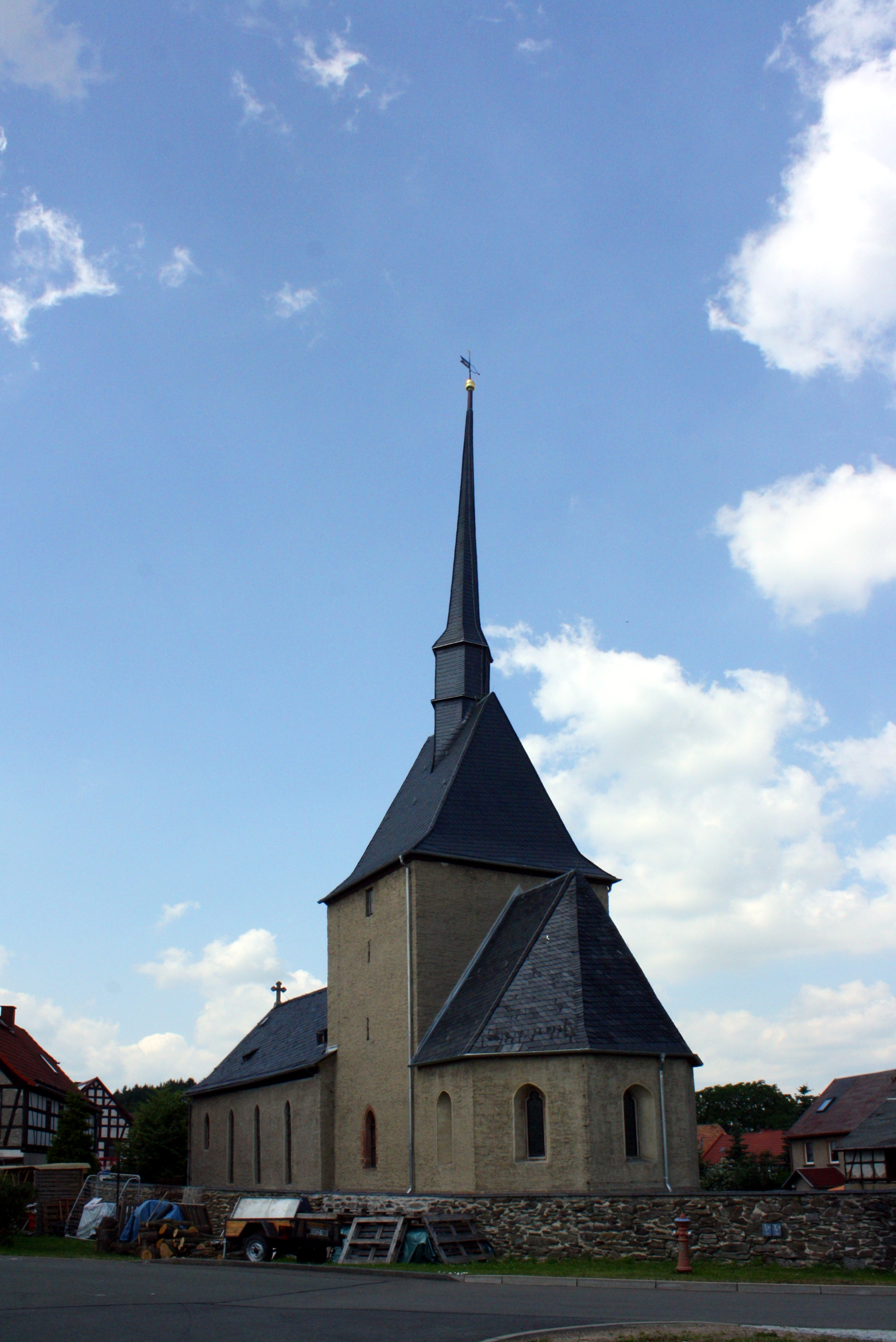 Church in Auma-Wöhlsdorf near Greiz/Thuringia